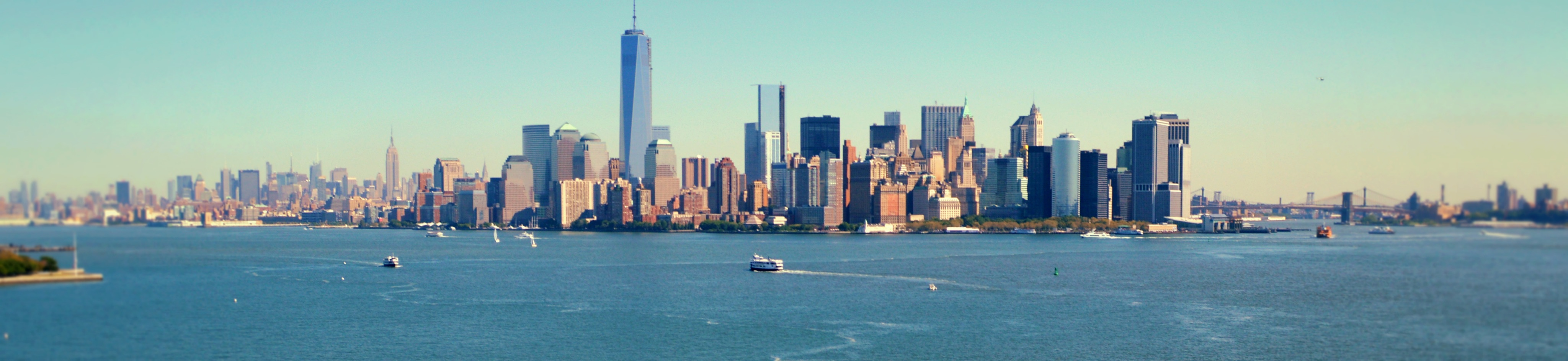 New York City skyline, from Statue of Liberty